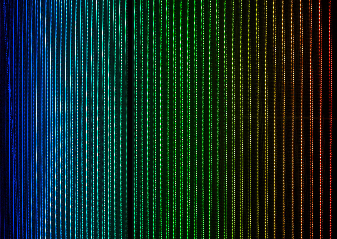 In April 2015 the HARPS laser frequency comb was installed on the HARPS planet-finding instrument on the ESO 3.6-metre telescope at the La Silla Observatory in Chile after completion of an intense first commissioning phase. The increase in accuracy made possible by this new installation should in future allow HARPS to be able to detect Earth-mass planets in Earth-like orbits around other stars for the first time. This picture shows a HARPS spectrum of the light from the two laser frequency combs that that were tested.